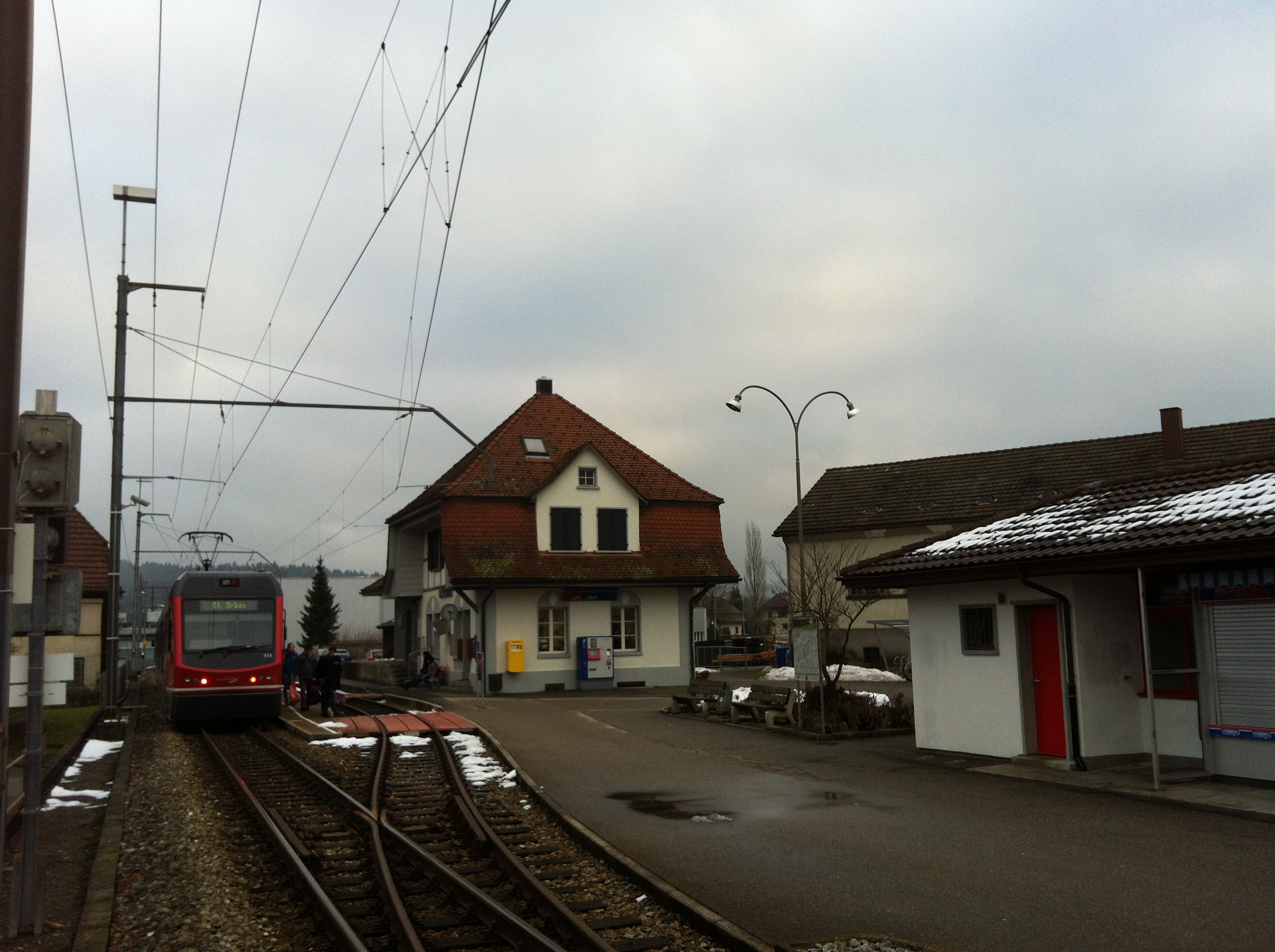 Railway station Roggwil